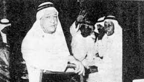 محمد علي سندي في ليلة من لياليه